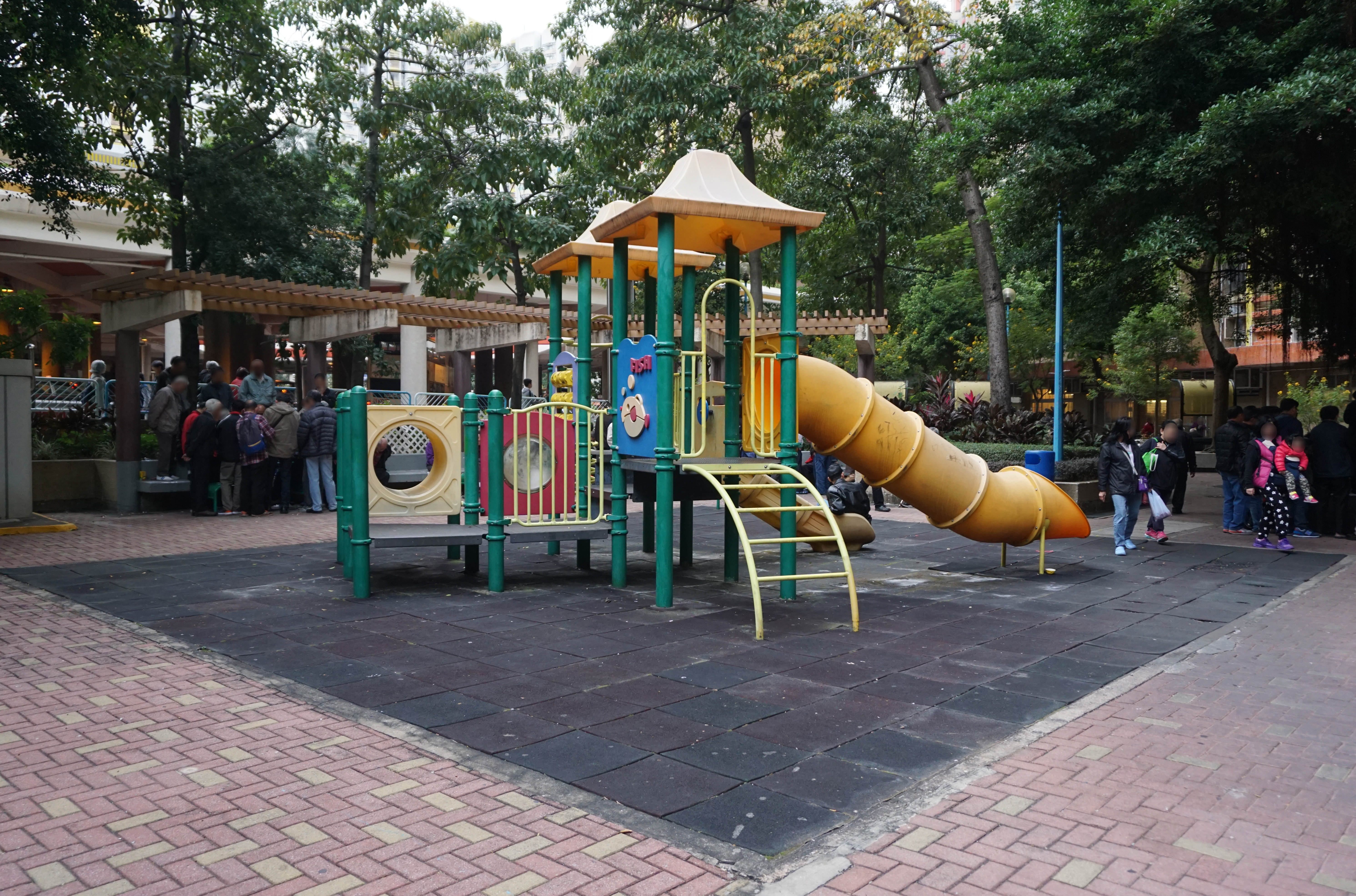 Cheung Fat Estate in Tsing Yi, Hong Kong.